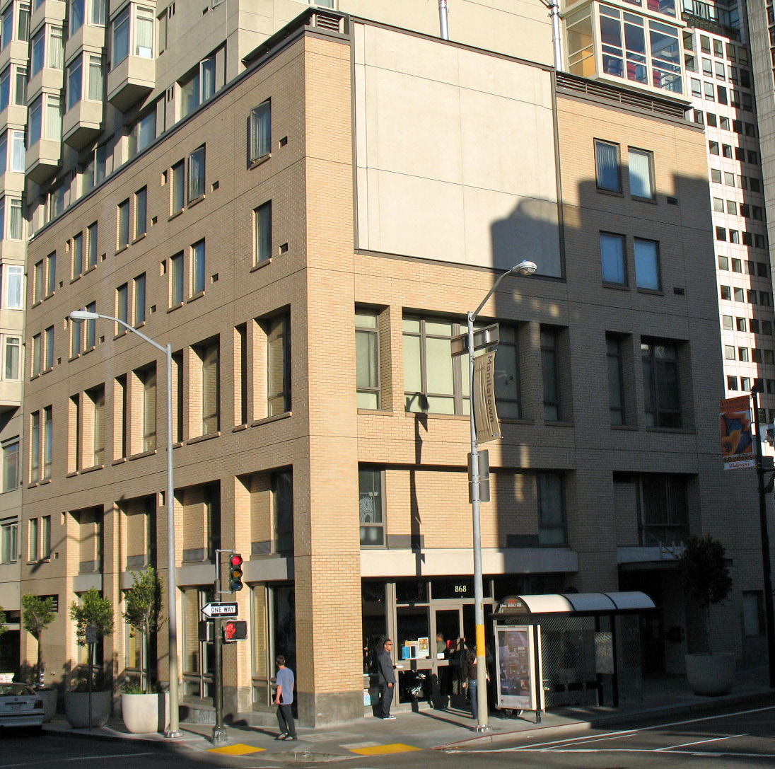 National Register of Historic Places in San Francisco, California. International Hotel, 848 Kearny St, San Francisco, California, USA. Photographed 2008-04-26 by Mike Hofmann from the northwest corner of Kearny and Jackson Sts.